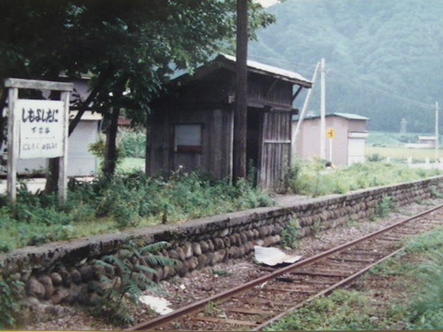 Hokutetsu Kinmei line Shimoyoshitani station